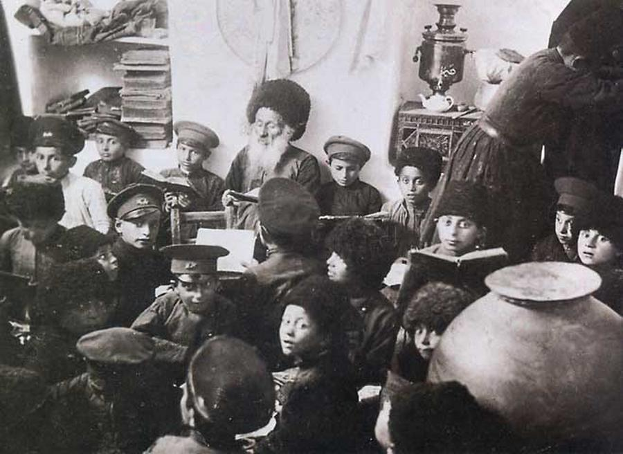 Class held at a primary Mountain Jewish school in Guba